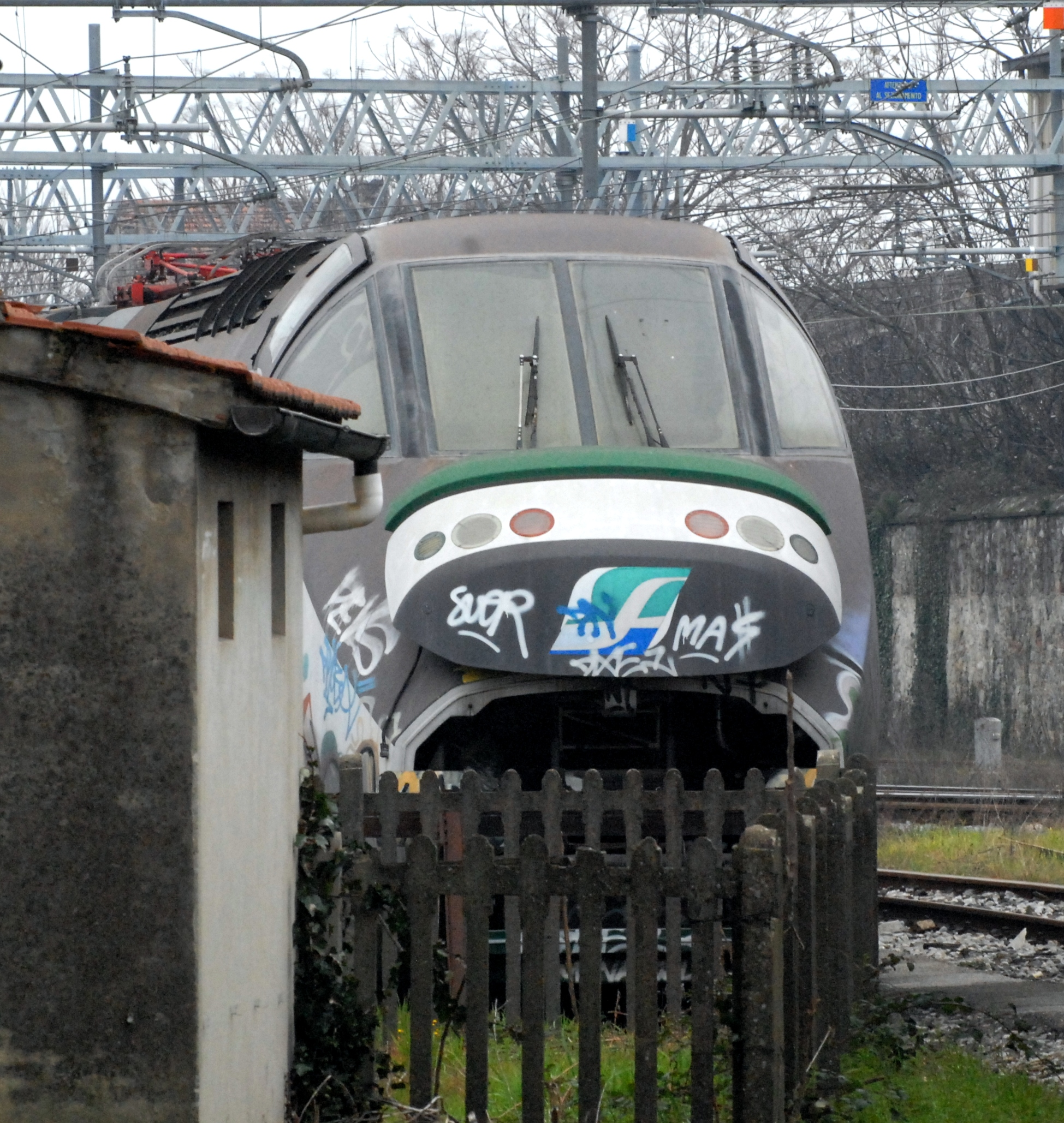 Photos from the FS railway deposit in Pistoia, Italy. E404.001, head unit of ETR500 Y "Romolo", second prototype of the ETR500 class trainsets. The trainset served on the Roma-Firenze at the beginning of the 90s, and is now stocked in Pistoia, badly vandalized